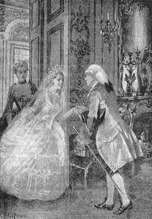 An illustration from Jules Verne's novel "The Secret of William Storitz" (written in 1898, firts published in 1910 after his death with changes made by his son Michel) drawn by George Roux.